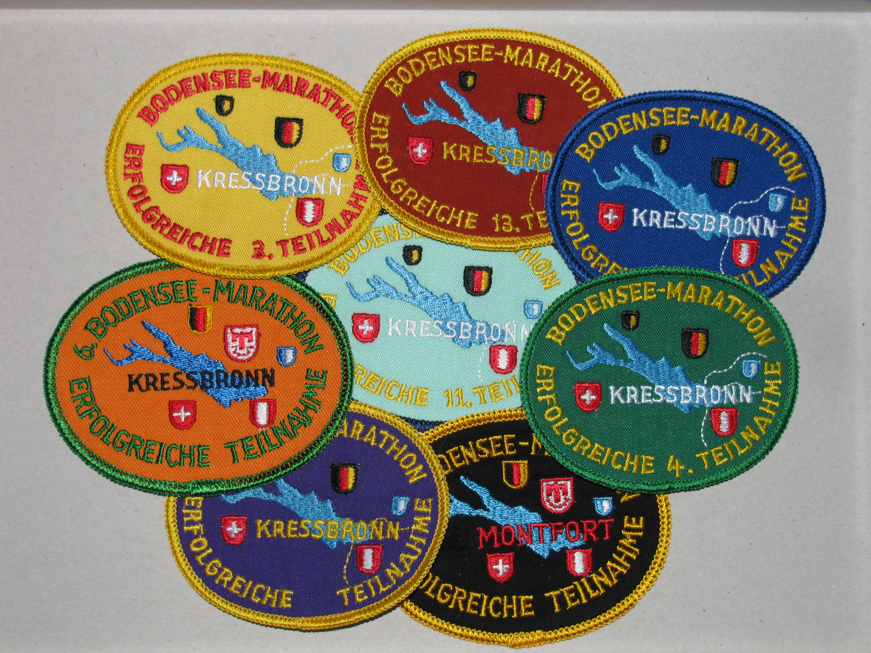 Germany - Baden-Württemberg - Bodenseekreis - Kressbronn am Bodensee: Bodensee-Marathon's patches for successfully participations